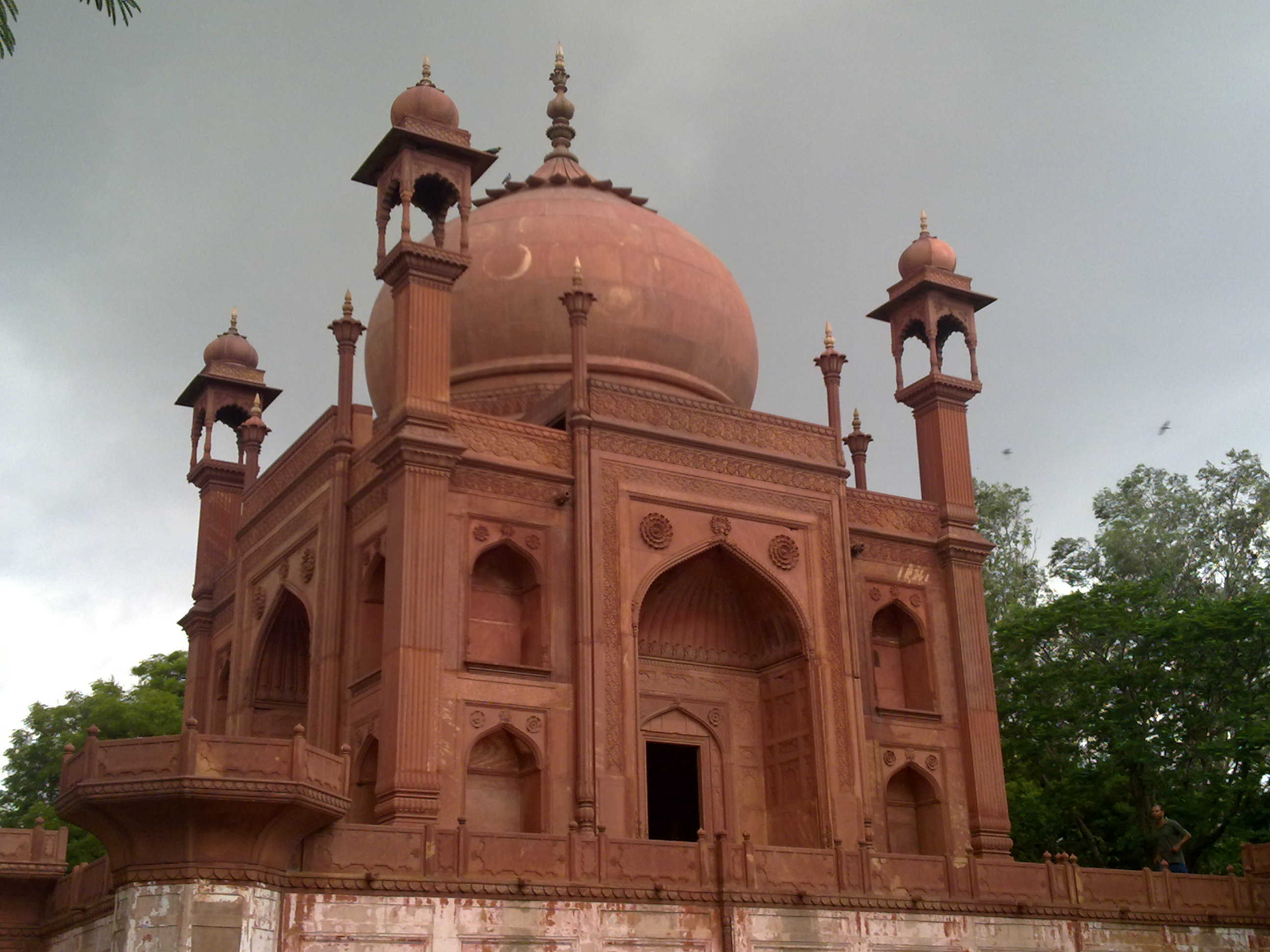 Template:=Red Taj Tomb of John Hessing ; Hessing's tomb is located in the Padretola, or Padresanto, a Christian cemetery in Agra